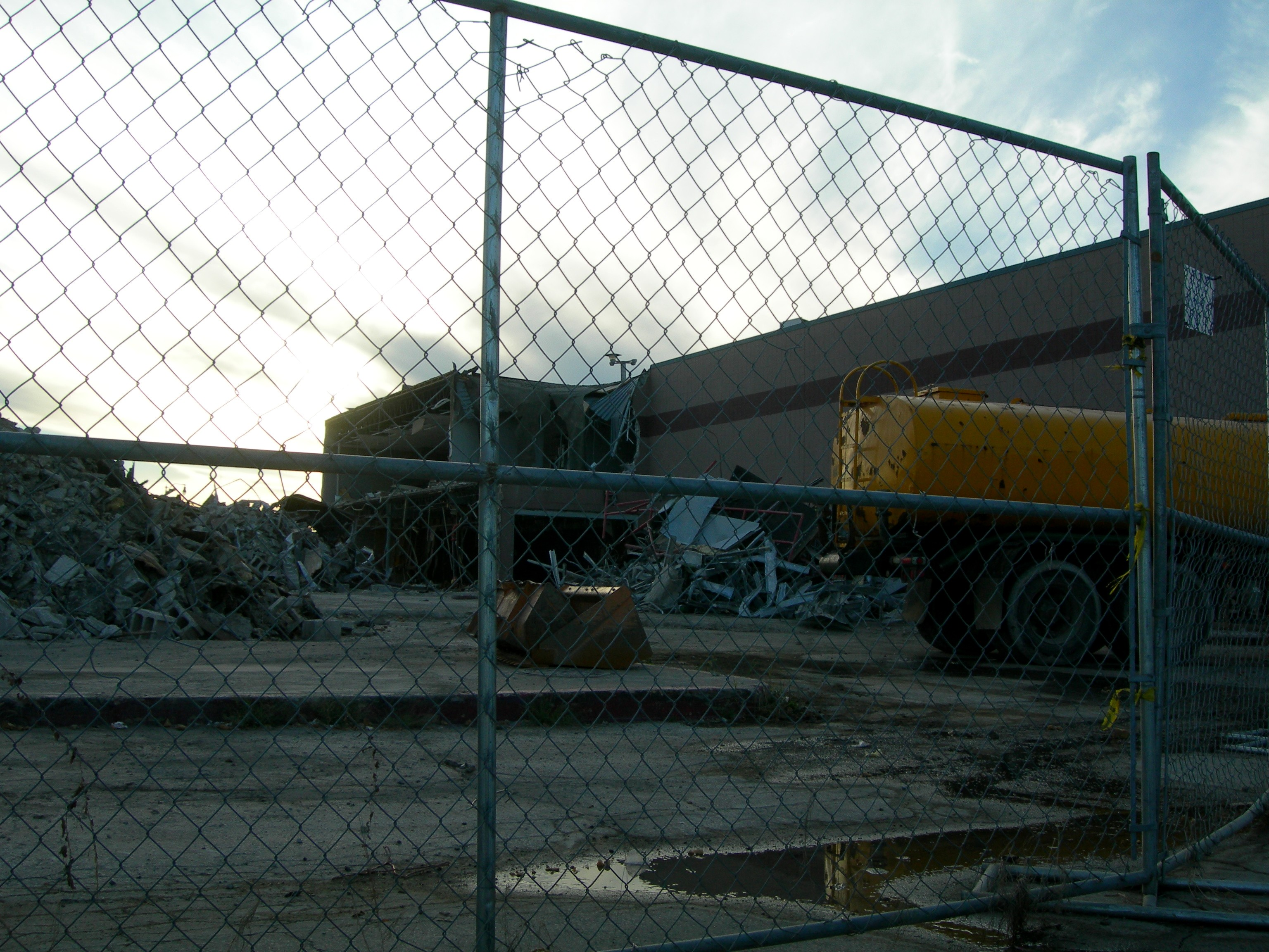 Behind a wire fence, the partially-demolished Lakehurst Cinemas in Waukegan, Illinois; the related Lakehurst Mall was demolished 3 years earlier.